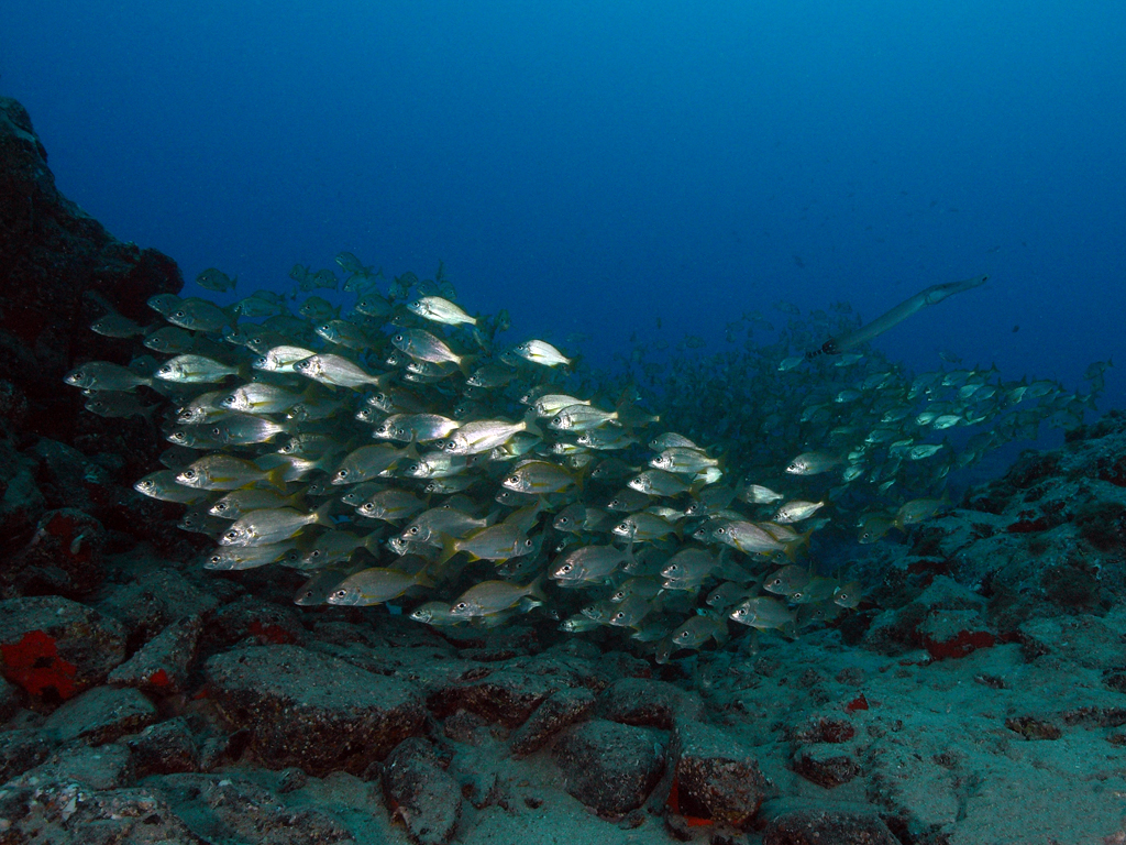 Aulostomus strigosus - Atlantic cornetfish / pez trompeta / poisson trompette & Pomadasys incisus - Bastard grunt / Roncador / Grondin métis, Tenerife.